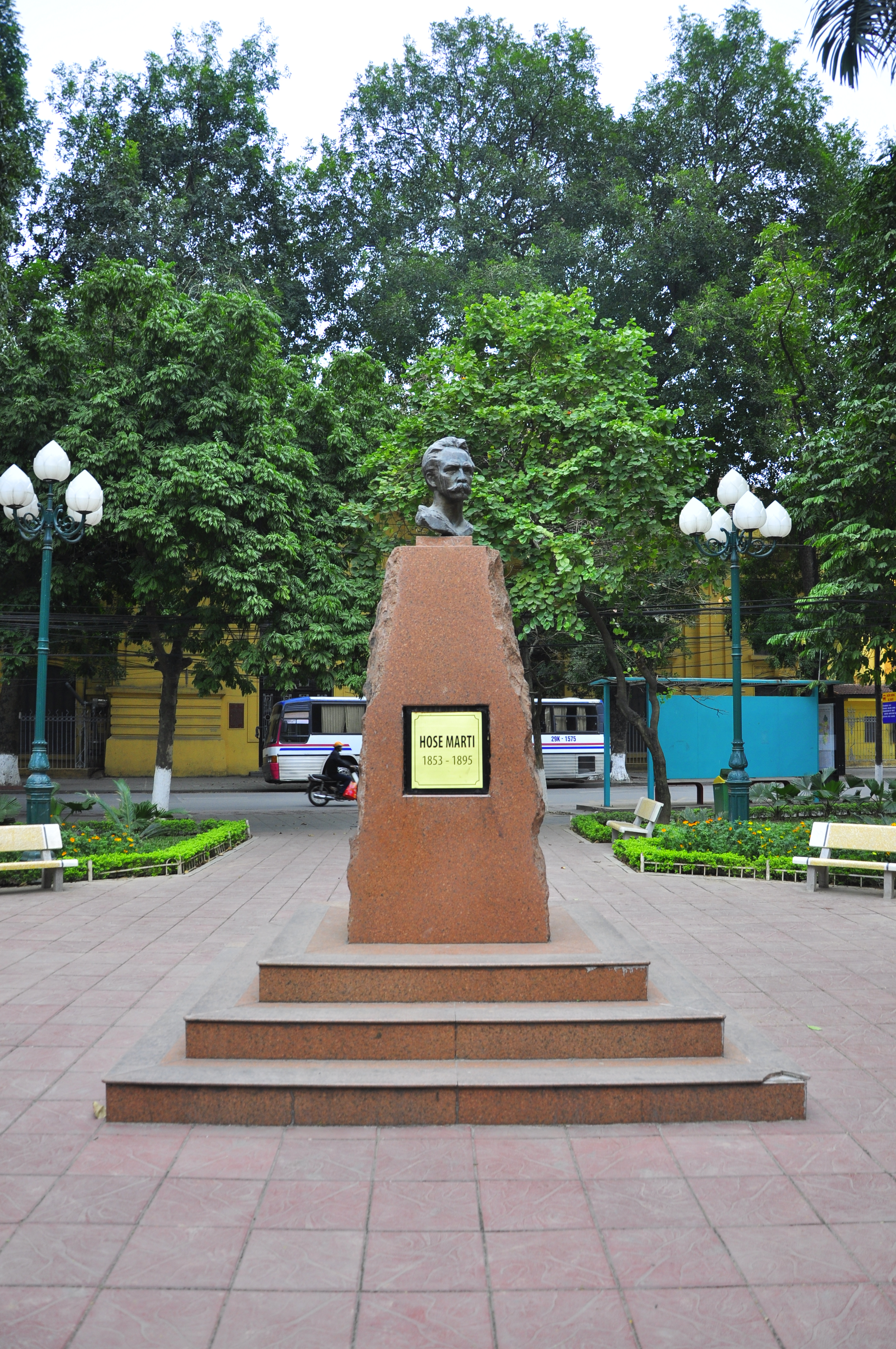 A Statue of the Cuban national hero Hose Marti in Hanoi